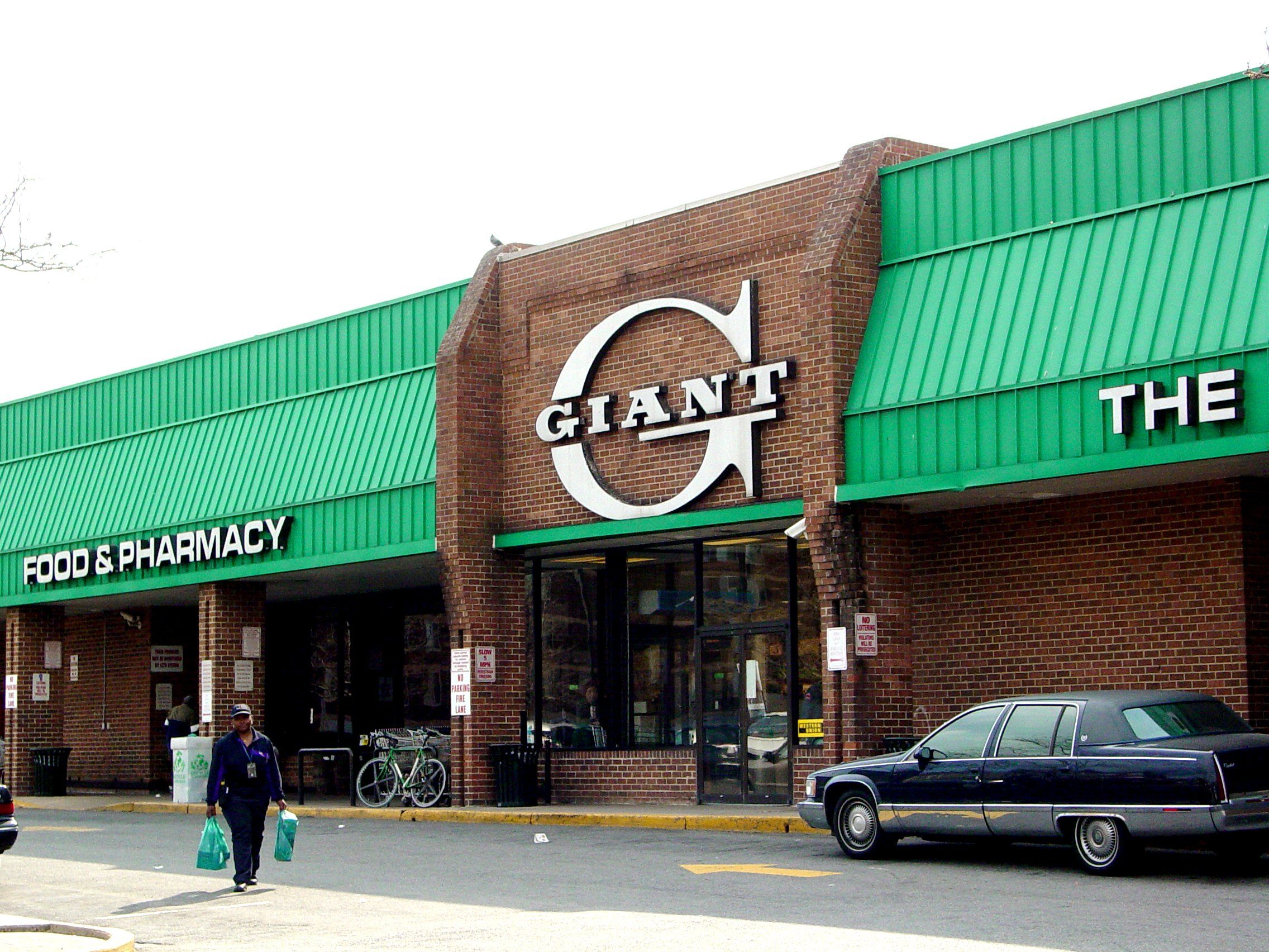 Giant Food store (Giant of Landover) at 1414 Eighth St. NW in Washington DC, featuring the old logo.